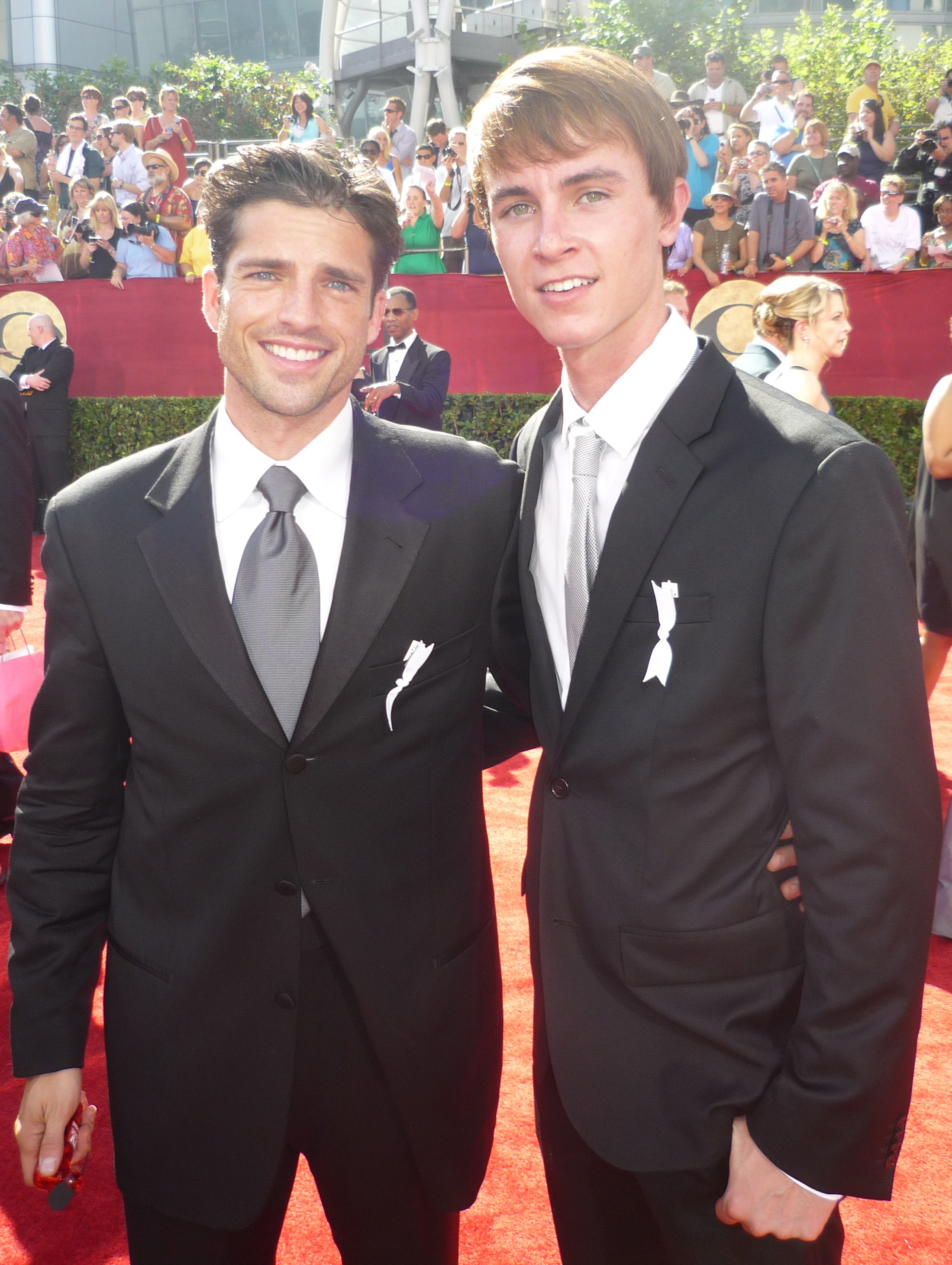 Stars of Prayers for Bobby